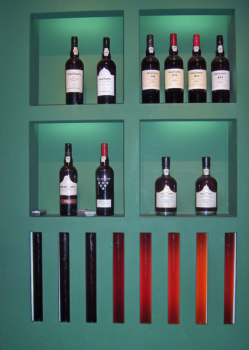 Different port wines with their corresponding colour